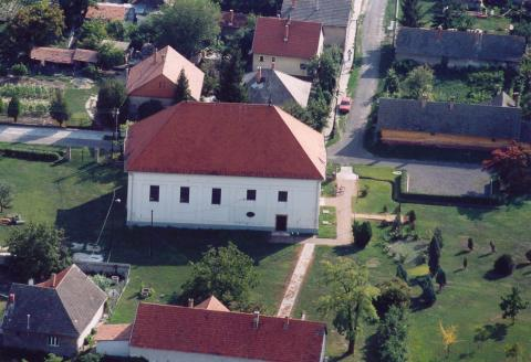 Apostag, aerial view of the synagogue.